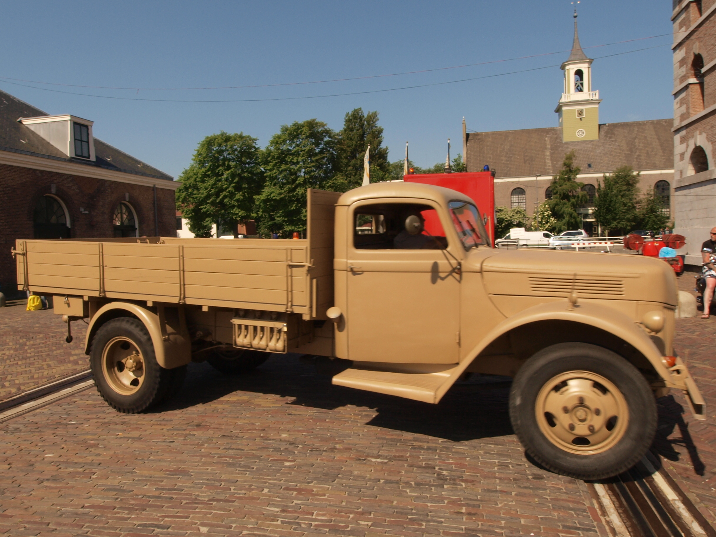 Photographed at Den Helder, The Netherlands. OLYMPUS DIGITAL CAMERA